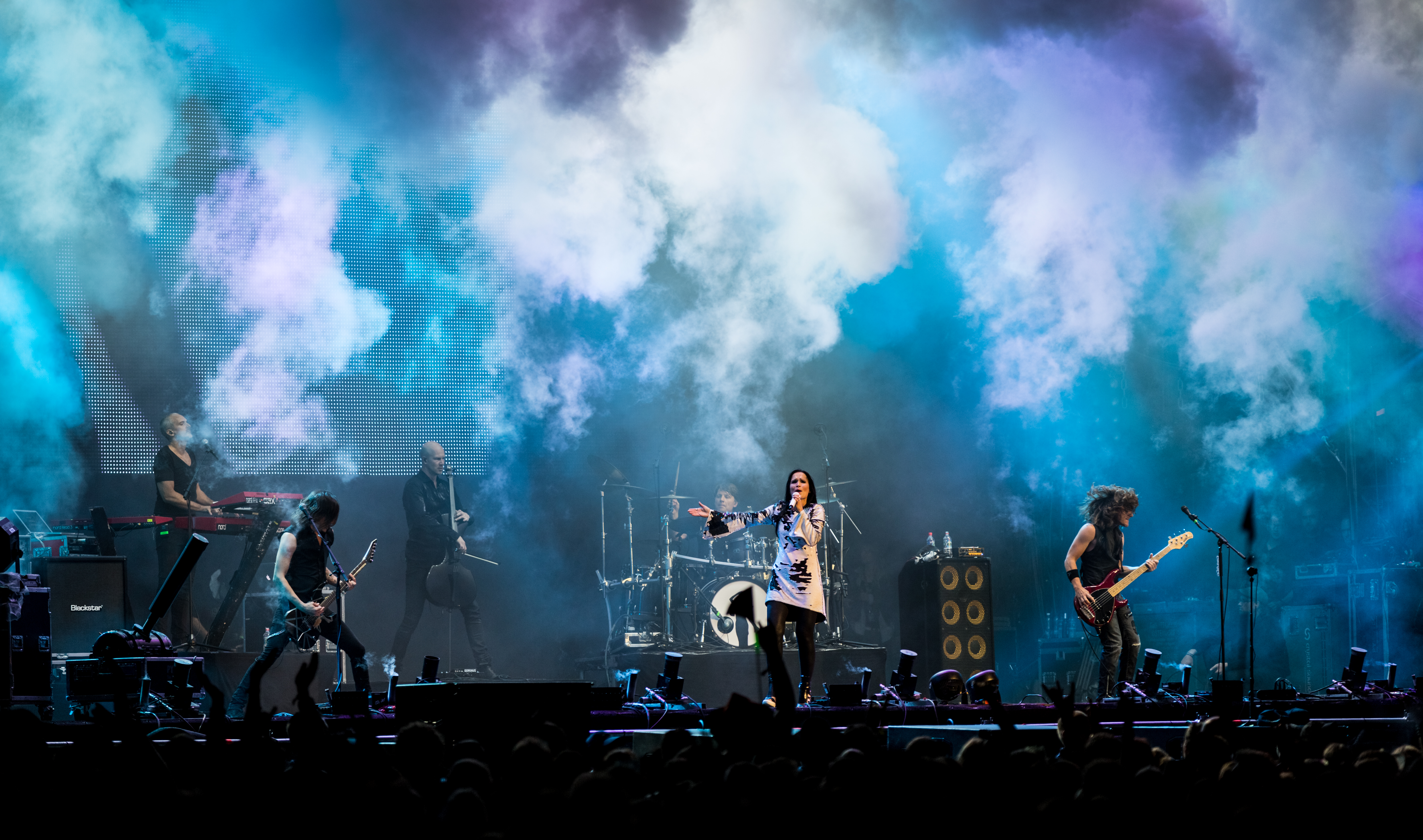 Tarja - Wacken Open Air 2016